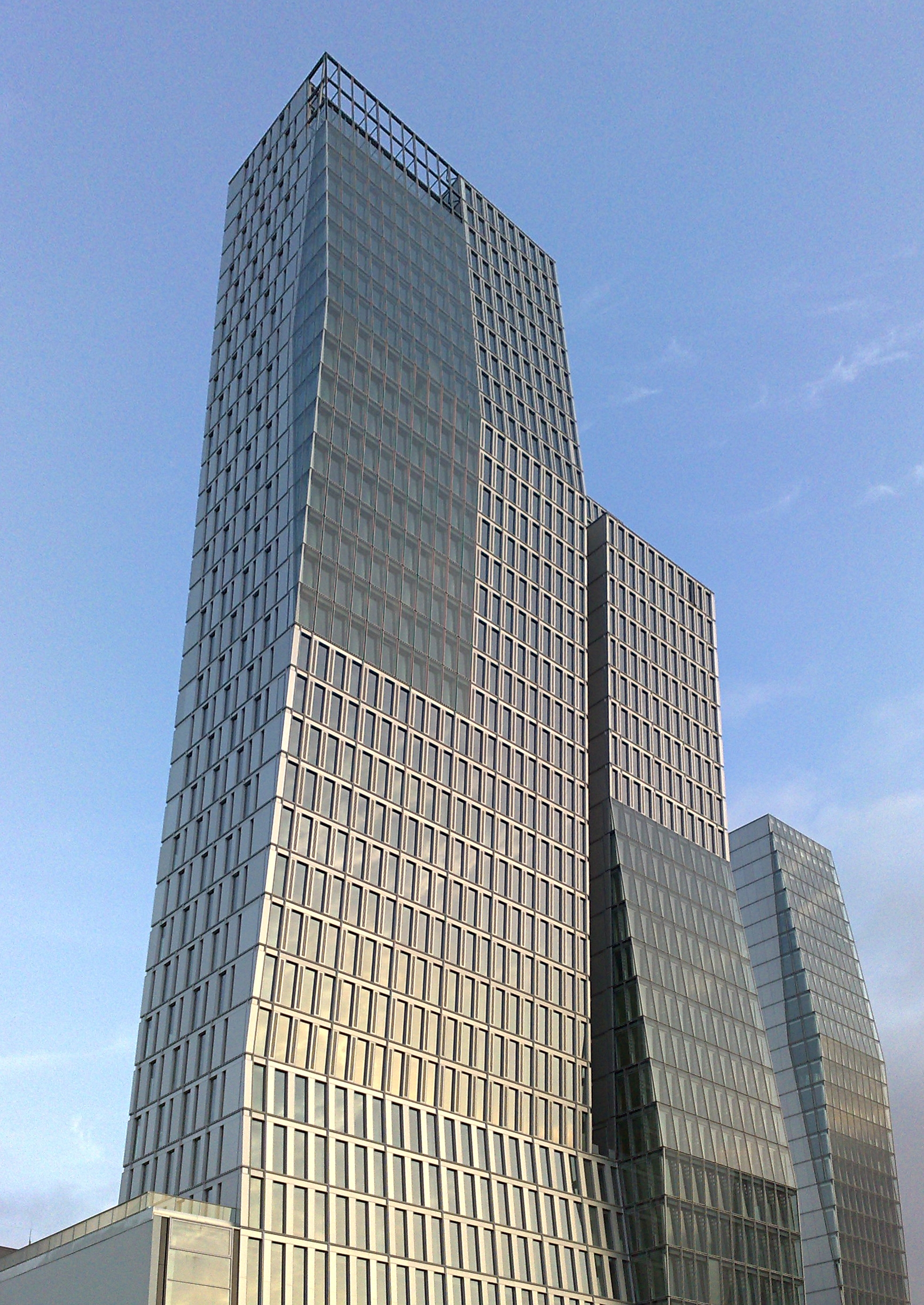 Office tower Nextower at Thurn-und-Taxis-Platz of the PalaisQuartier. The Jumeirah-Hotel at Thurn-und-Taxis-Platz is in the background.